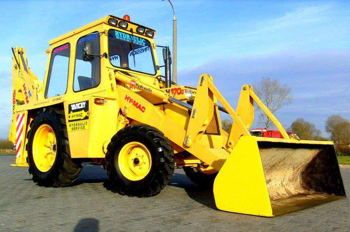 HY-MAC Backhoe Excavator.